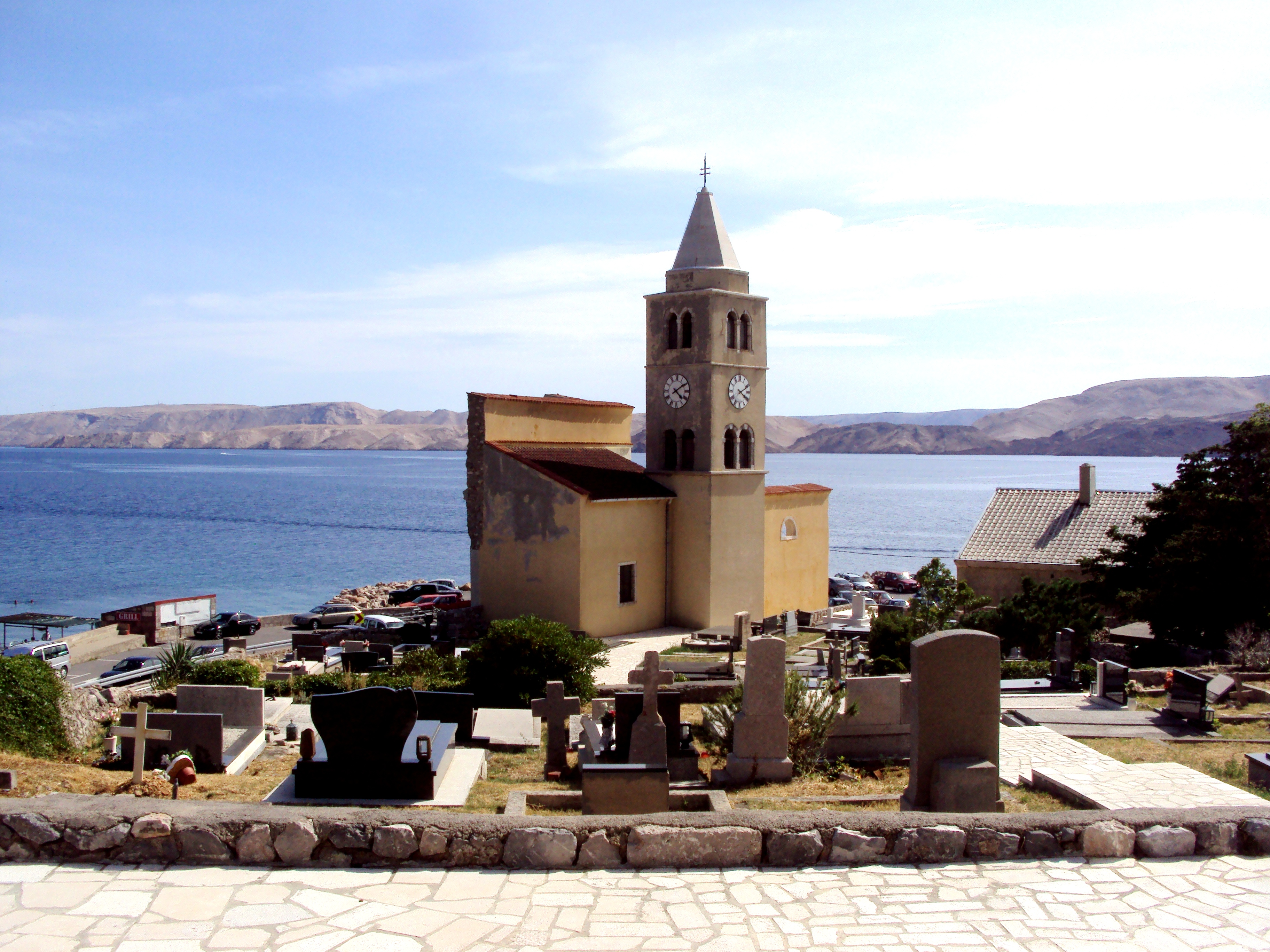 Church of St. Charles Borromeo in Karlobag, Croatia